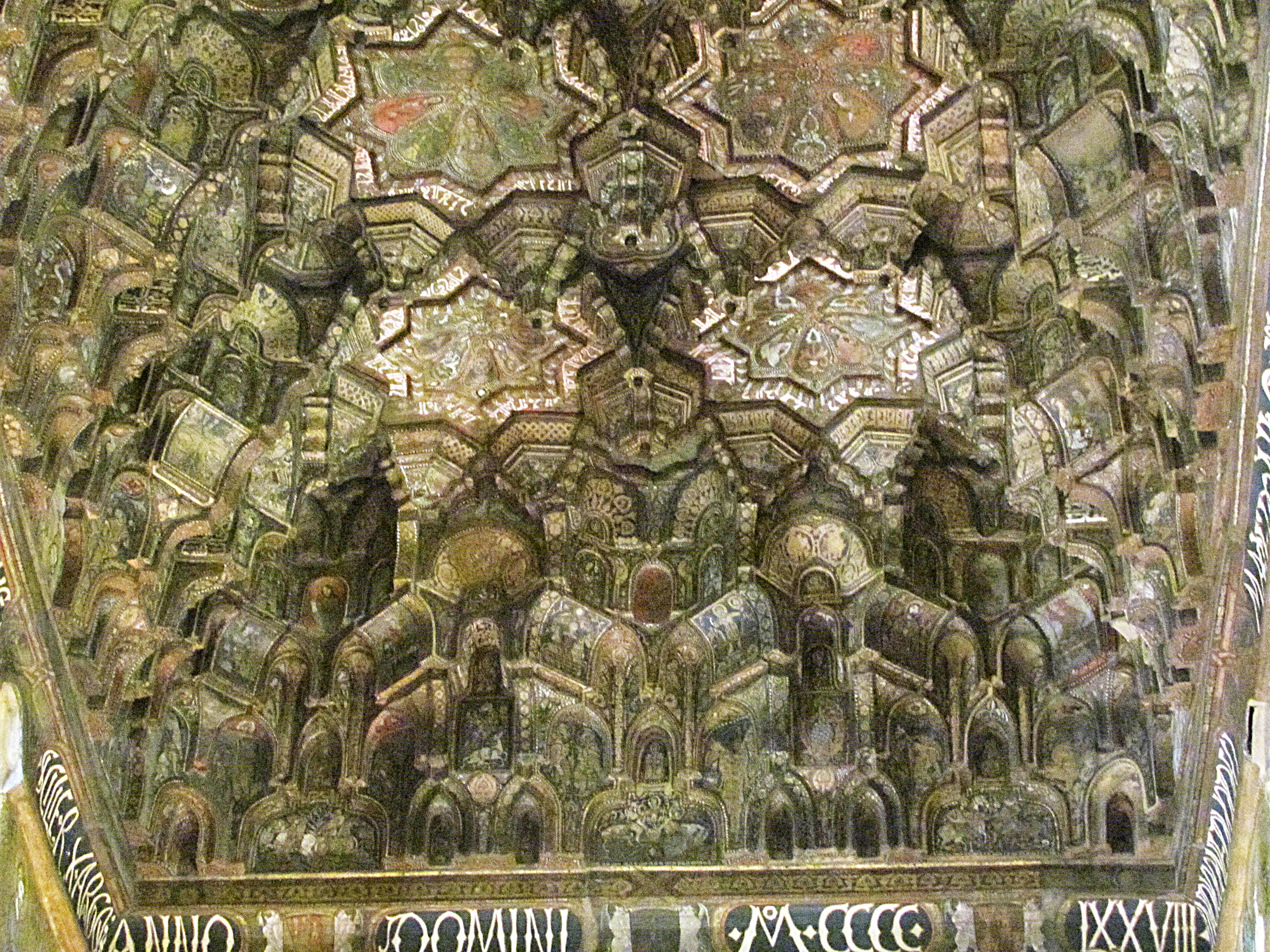 Ceiling with carved wooden coffers in old Arab style (Cappella Palatina, Palermo)